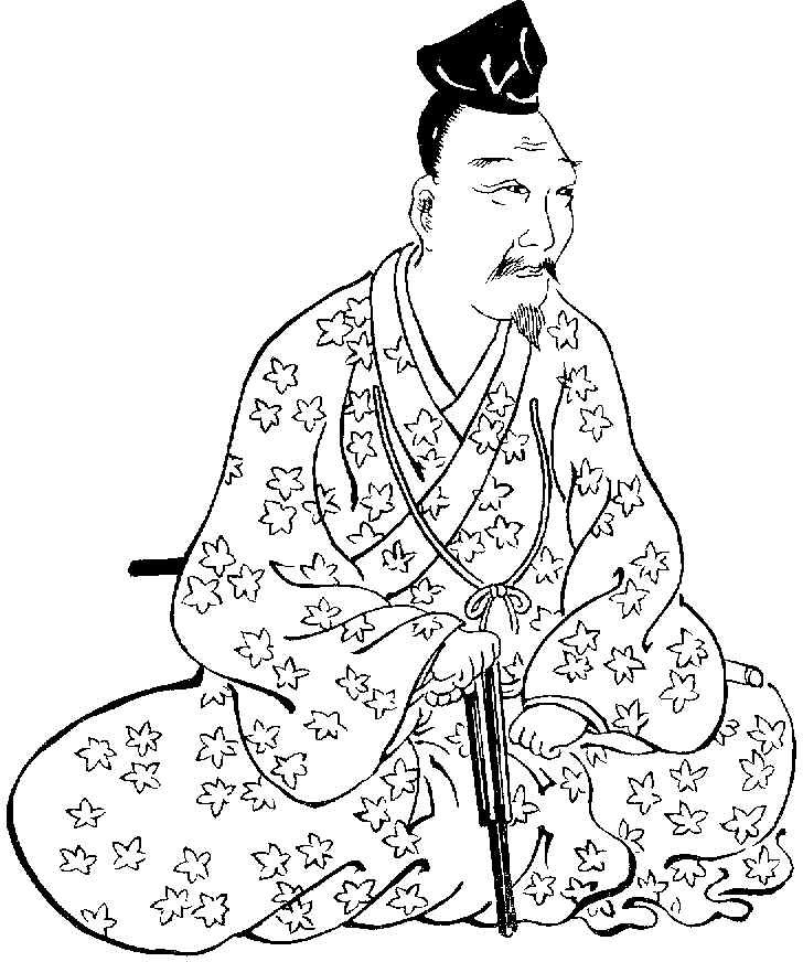 Portait of Iizasa Chōisai IenaoEsperanto: Portreto de Iizasa Chōisai Ienao